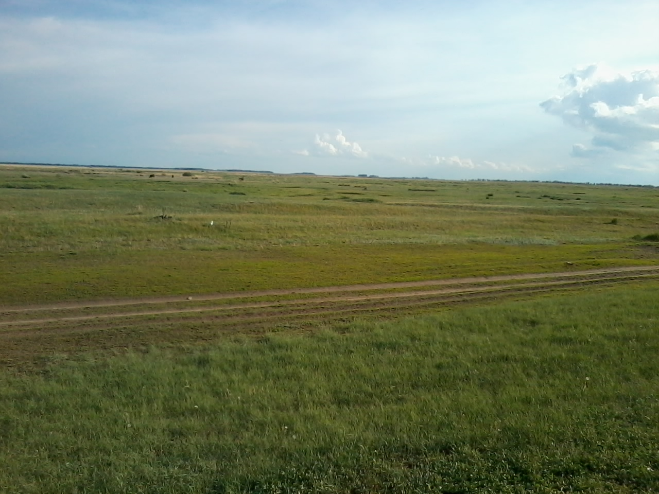 Шимолинская степь